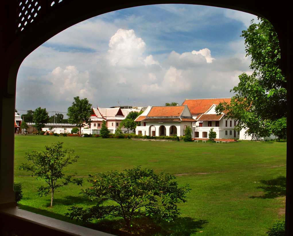 Wang Chan Kasem Museum in former Palace of the Front, Ayutthaya kingdom, Thailand.